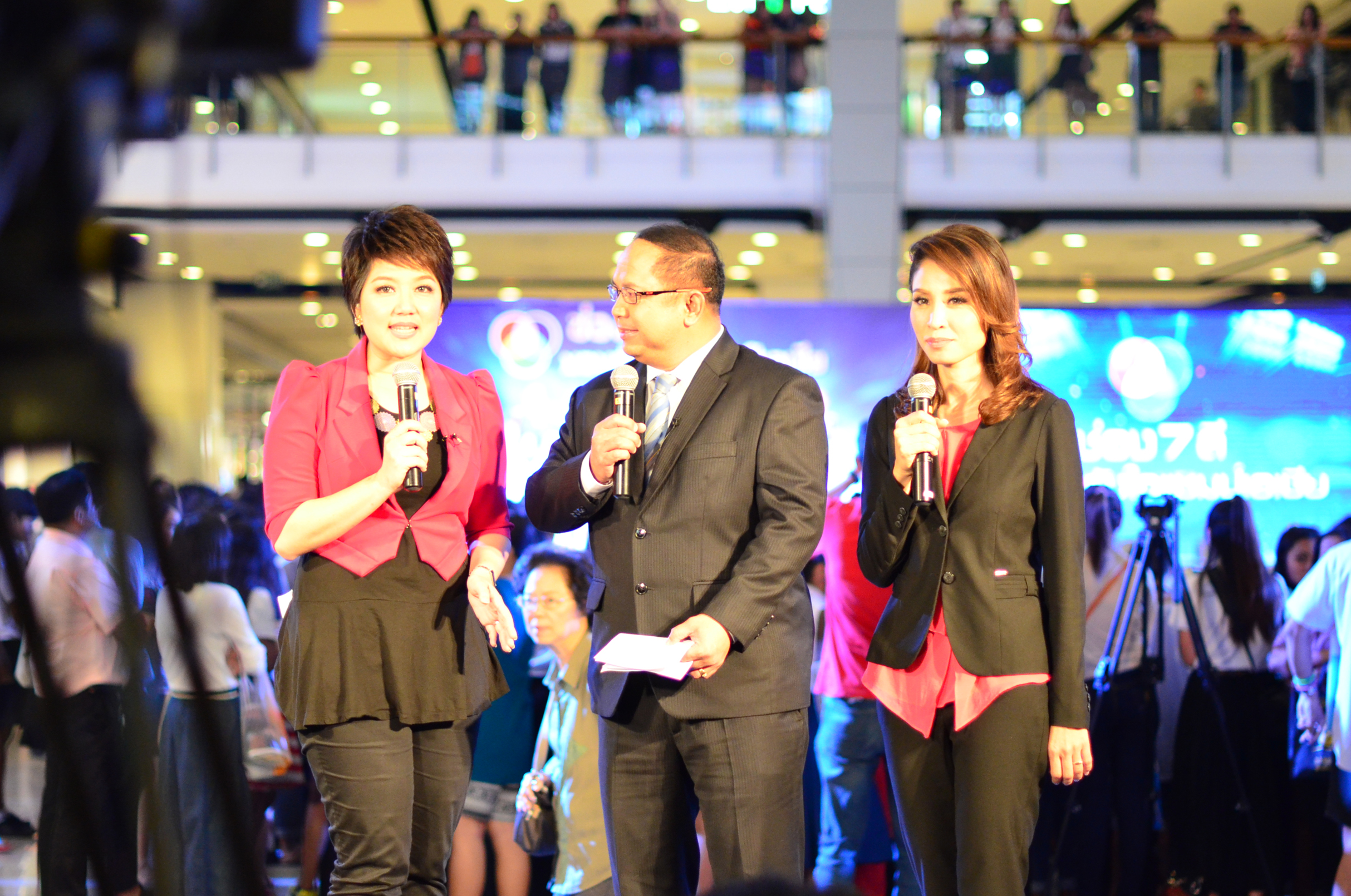 Srisupang, Weerasak, Sornsawan